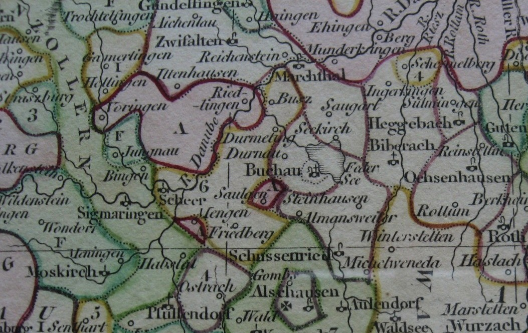 Location of the Imperial Abbey of Buchau and Free Imperial City of Buchau. Both the abbey and the city, which were based in the same town, were independent of each other. As seen on the map, the Imperial Abbey's territory extended beyond the town. It also included the lordship of Strassberg (Straszburg on the far left of the map). Cropped from a map of Swabia published by R. Wilkinson in 1802.